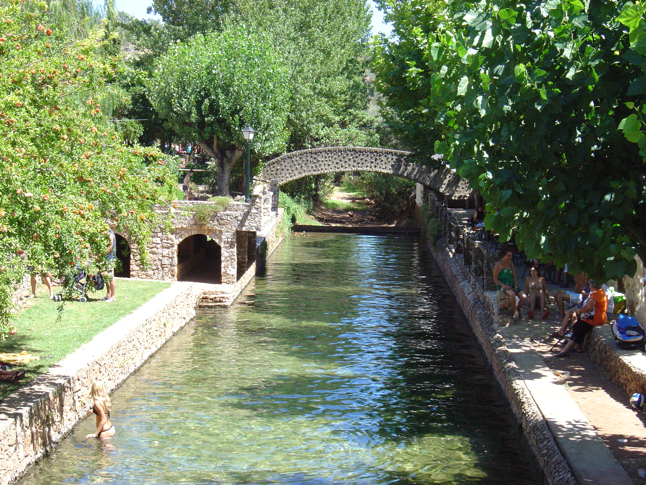 Alte, Loulé, Portugal